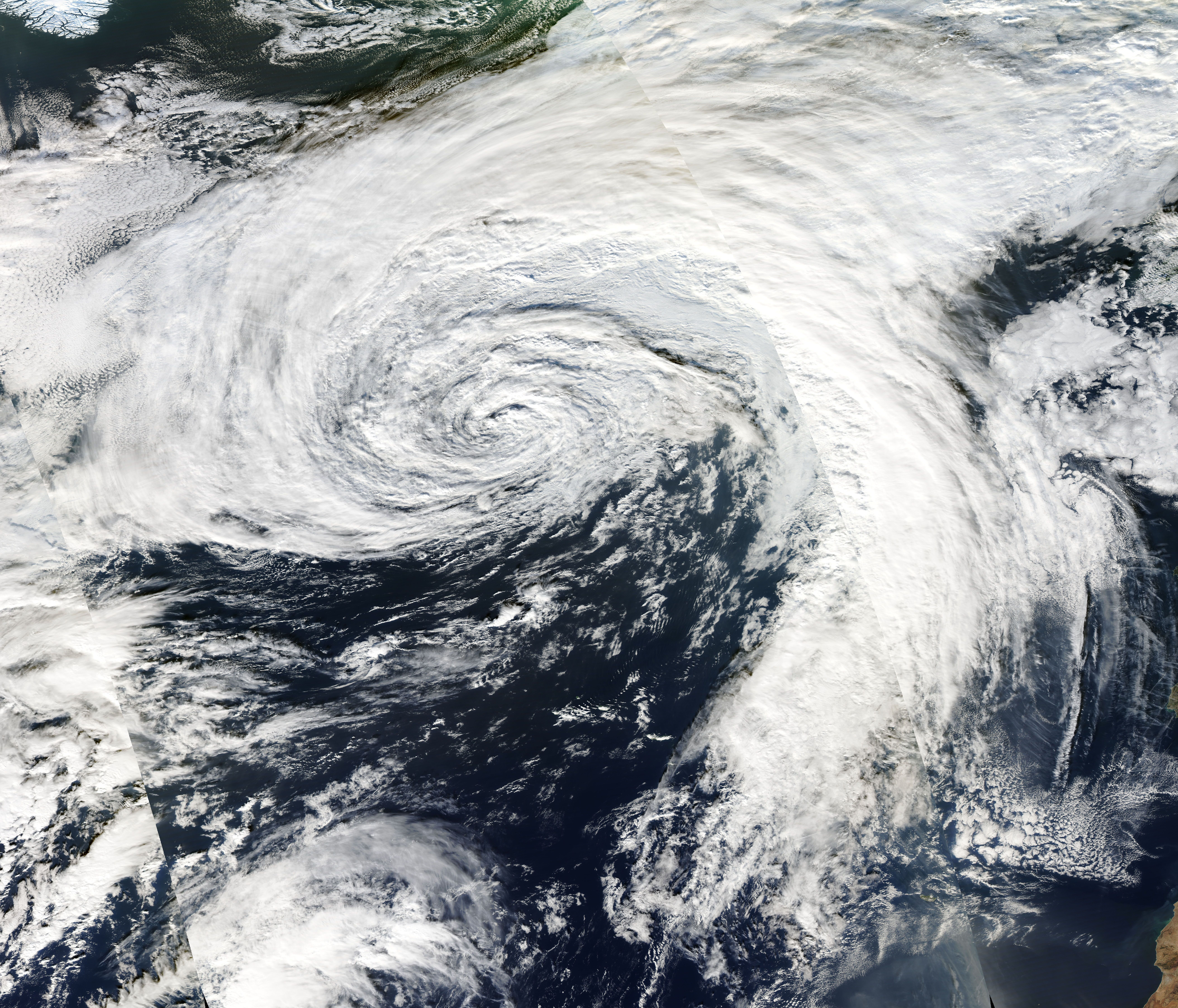 Storm Caroline of the 2017–18 UK and Ireland windstorm season over the central North Atlantic on 5 December 2017.